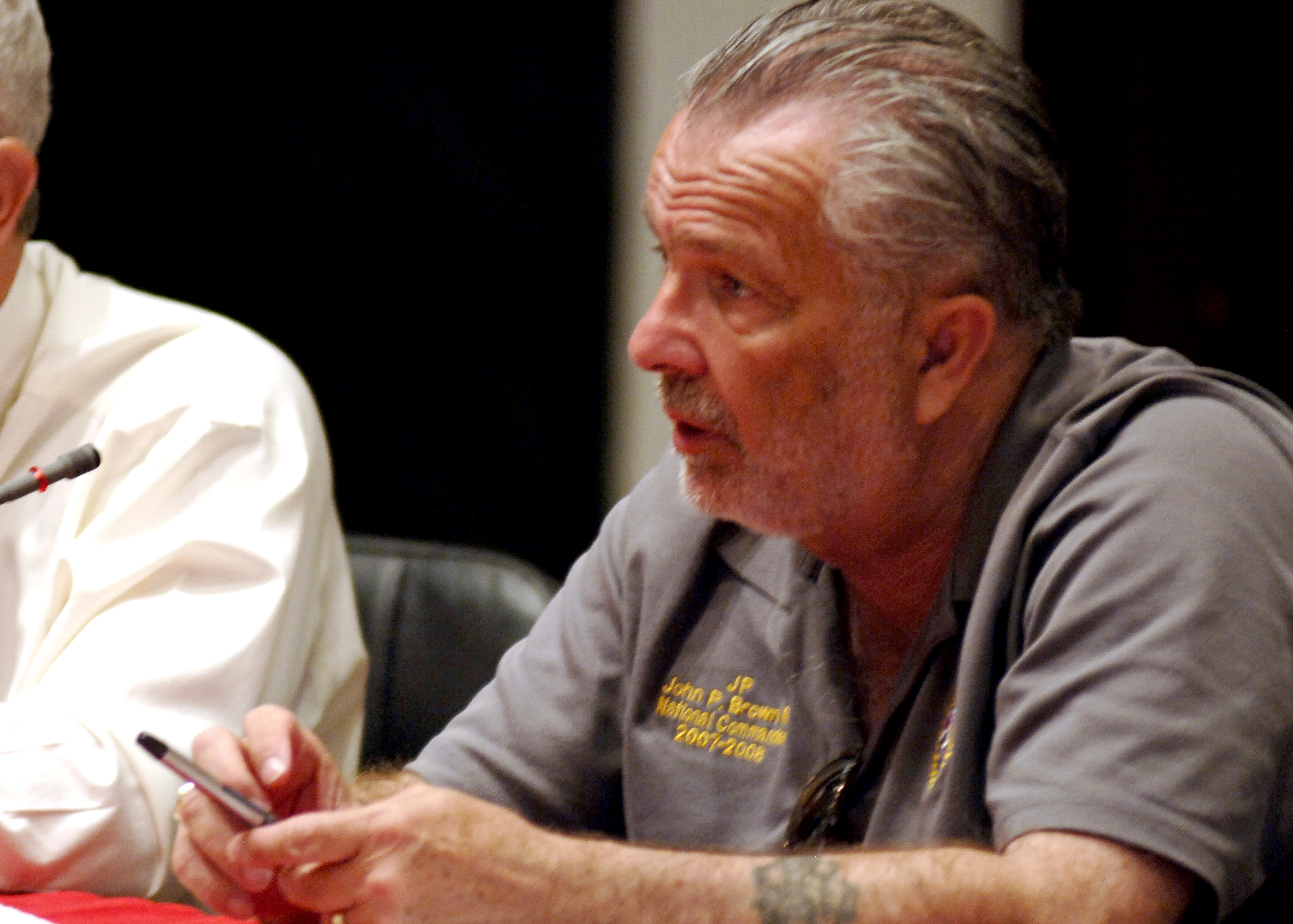 J.P. Brown III, national commander of American Veterans, or AMVETS, asks U.S. Brig. Gen. Jeffrey Dorko, commanding general of the Gulf Region Division of the U.S. Army Corps of Engineers, about the challenges facing the ongoing Iraqi-led projects to improve the country's infrastructure, July 29, 2008.